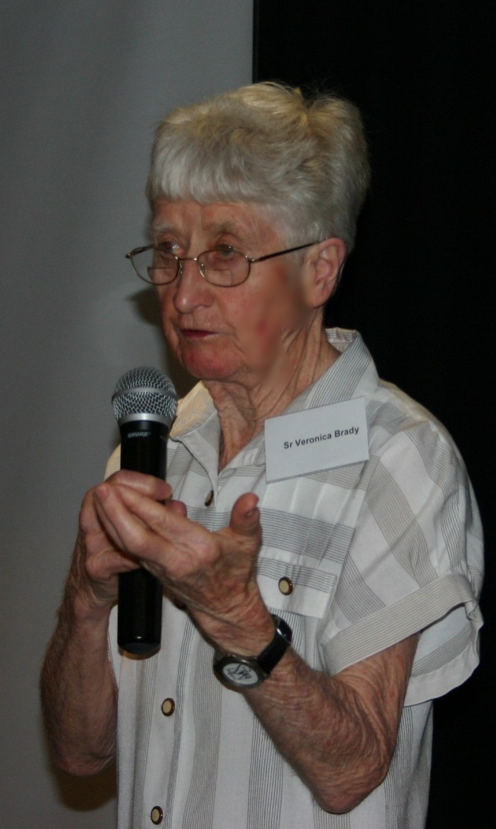 Sr Veronica Brady at the Greek Club in South Brisbane 2006